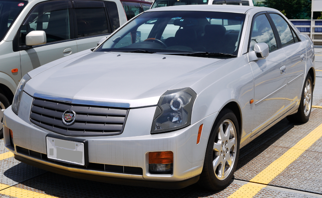 Cadillac CTS of the 1st generation in silver